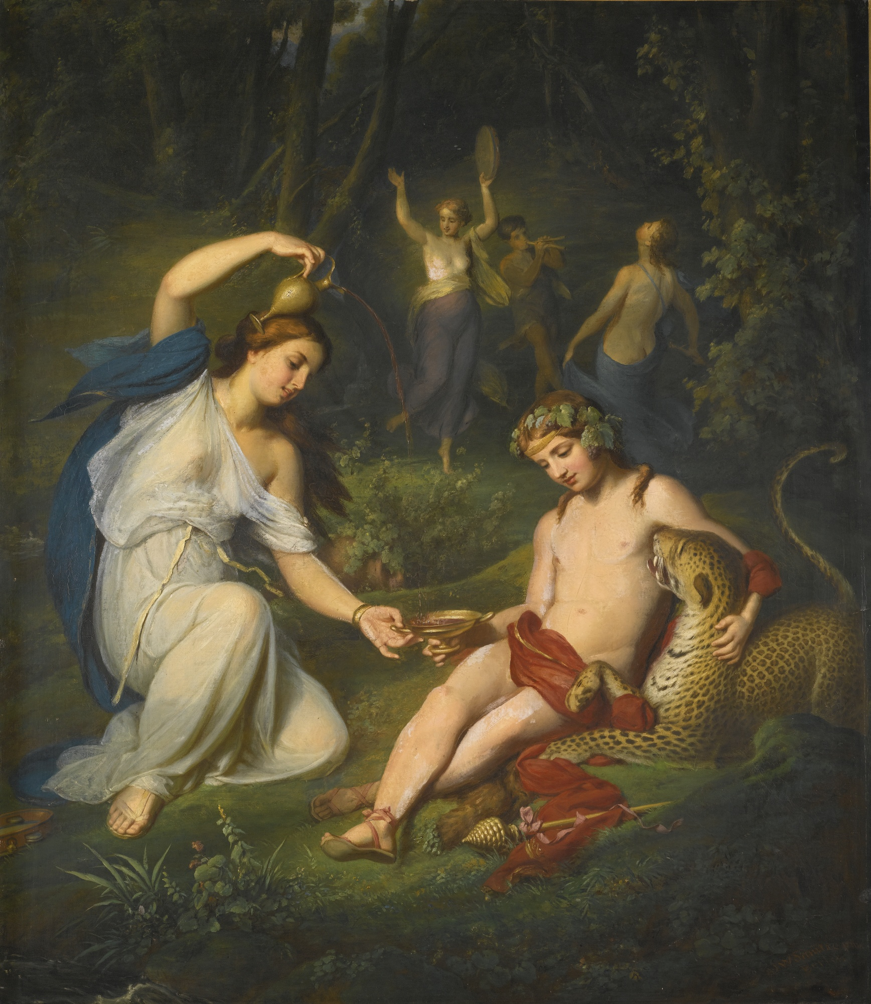 BACCHUS WITH LEOPARD", perhaps identical with his Bacchus, dem eine Nymphe Wein kredenzt, sold by Sotheby's, Bernheimer Day Sale, London Nov. 25, 2015, lot 195, for 6,000 GBP